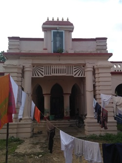 Padakatchery ramalinga swamigal koolsalai பாடகச்சேரி ராமலிங்க சுவாமிகள் கூழ்ச்சாலை